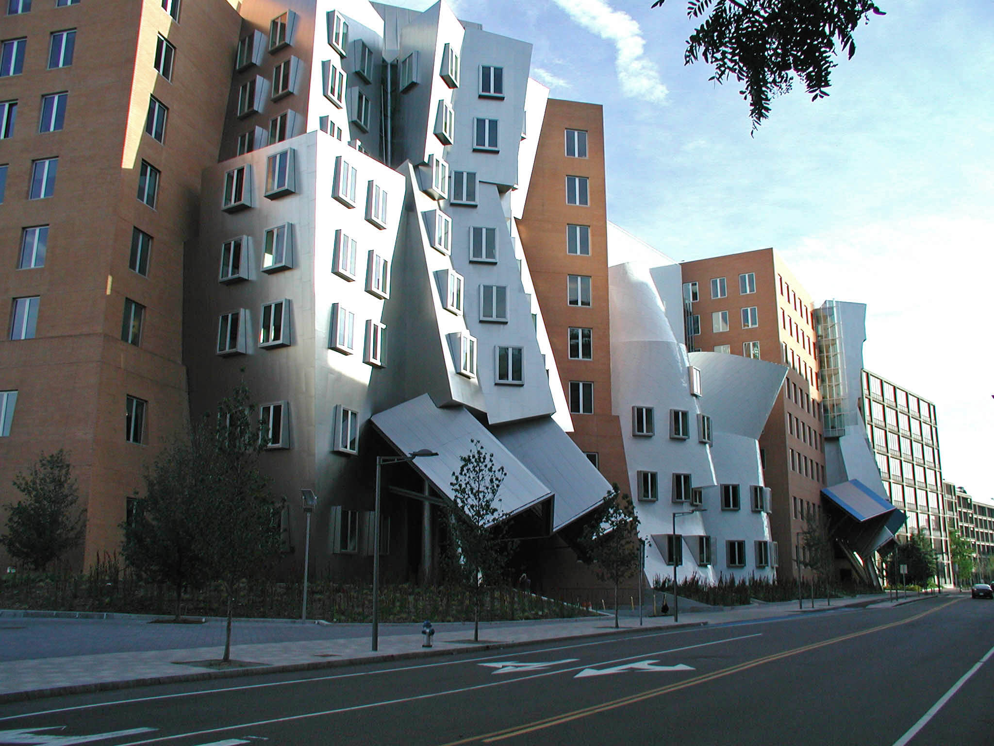 MIT Stata Center, Cambridge, MA, USA, wide view down the street. Picture taken by User:Raul654 on July 31, 2004